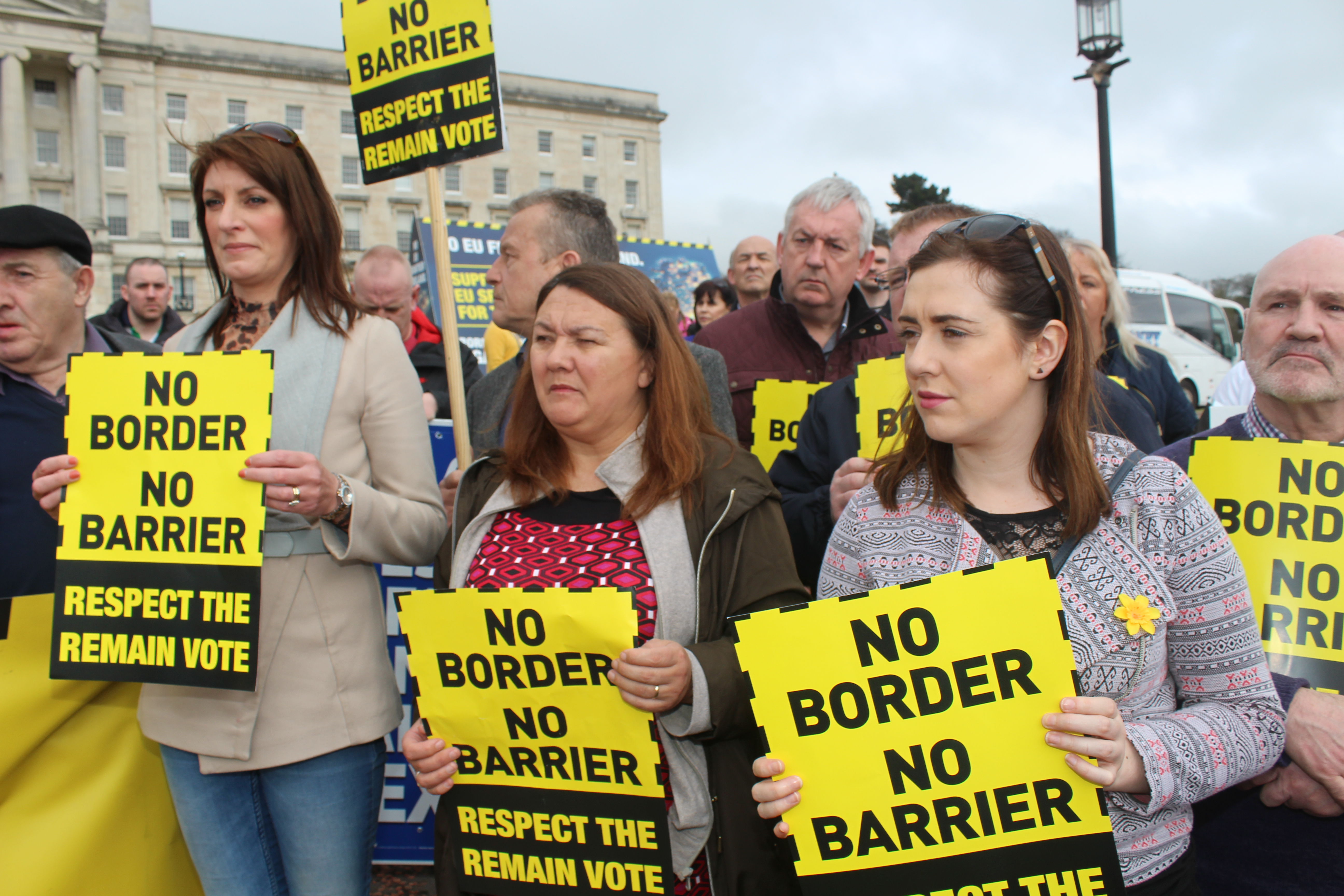 Sinn Féin anti-hard border protest at Stormont